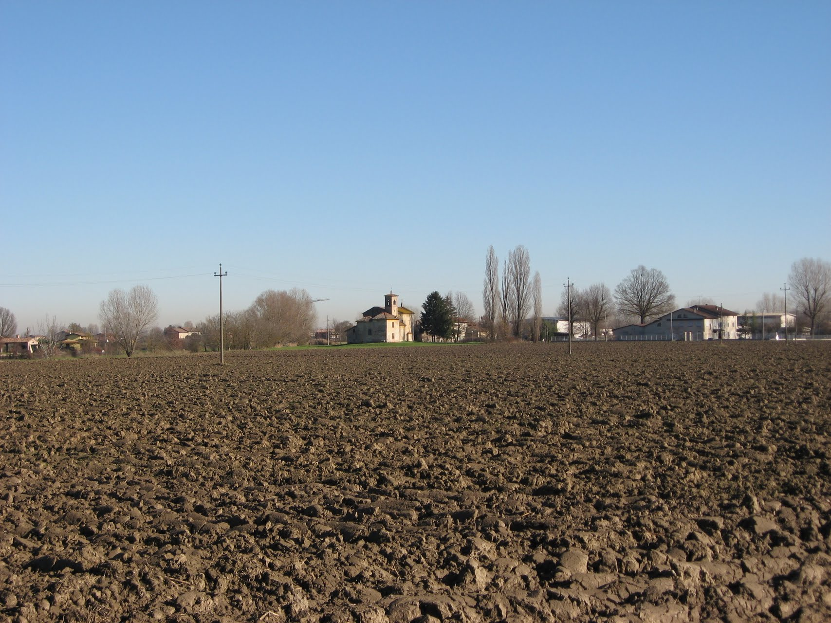 Corticelli Village